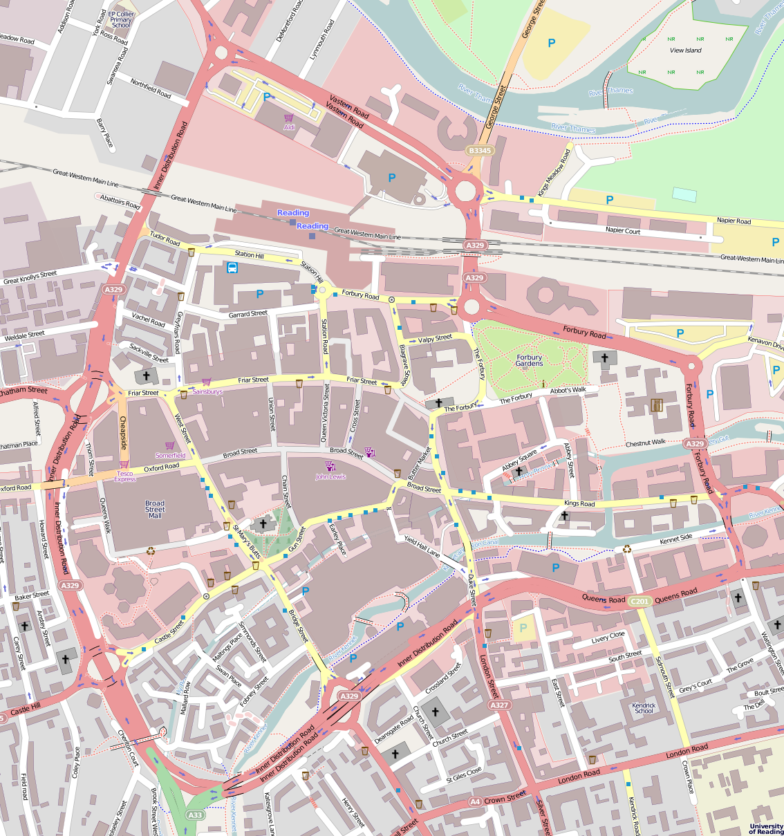 Map of Reading Central Geographic limits: N: 51.46258° S: 51.44969° W: -0.97991° E: -0.96103°